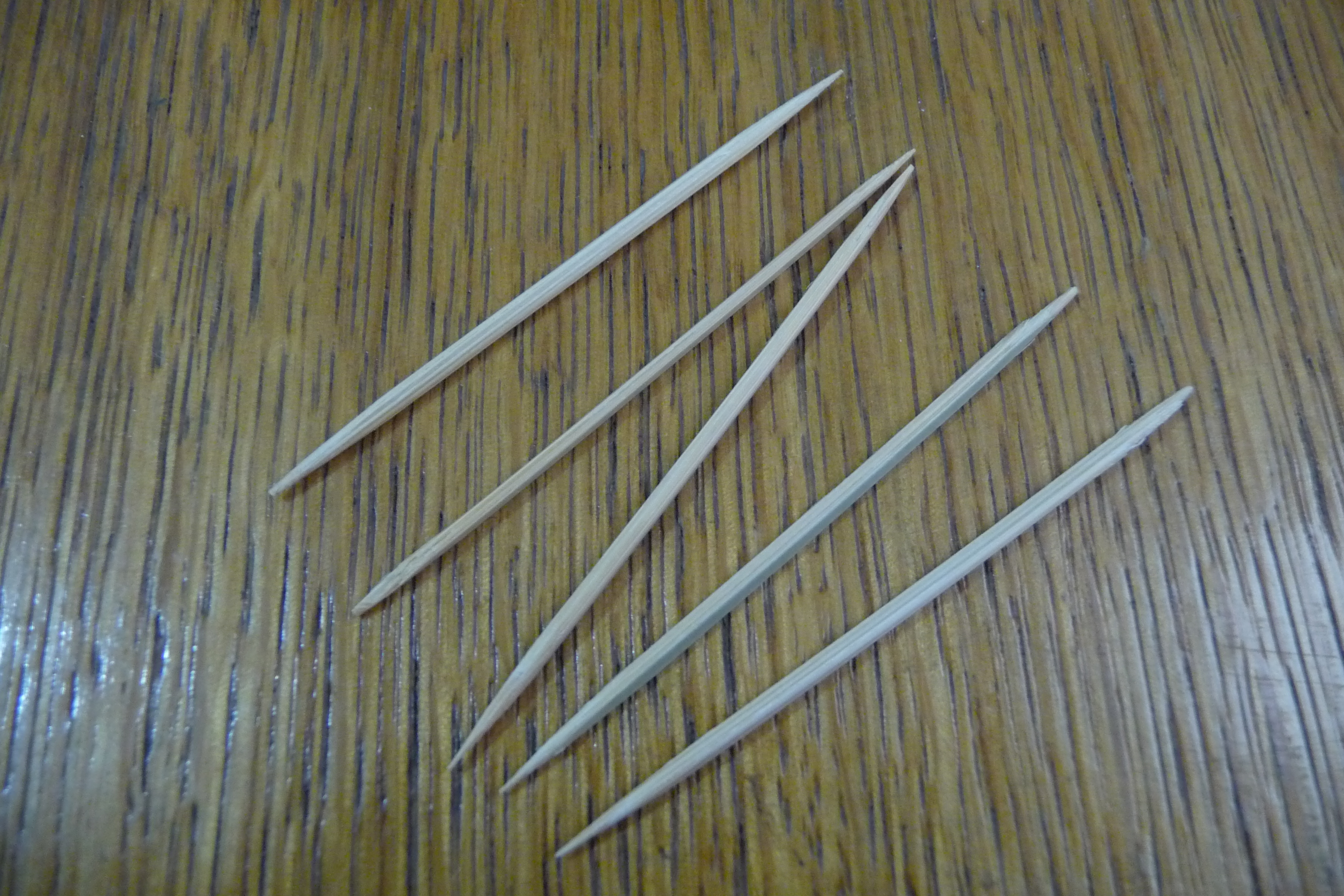 Toothpicks to clean teeth